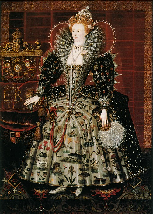 Elizabeth I (the Hardwick House portrait)